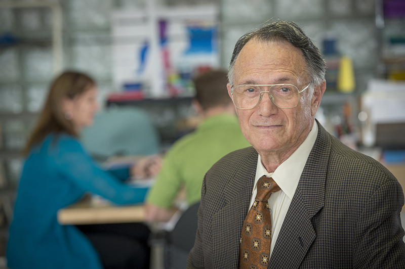 Dr. Edward Taub continues to apply CI principles to a number of disorders